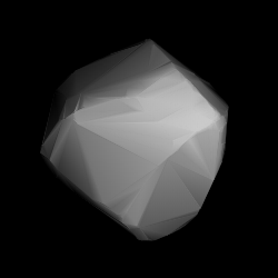 3D convex shape model of 1799 Koussevitzky, computed using light curve inversion techniques. J. Hanuš, J. Ďurech, M. Brož, B. D. Warner (June 2011). "A study of asteroid pole-latitude distribution based on an extended set of shape models derived by the lightcurve inversion method". Astronomy and Astrophysics 530: A134. ISSN 0004-6361. arXiv